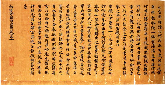 Buddhist Monastic Traditions of Southern Asia (南海寄帰内法伝, nankai kiki naihōden) by the Chinese monk I Ching. One handscroll, ink on paper. custody of Tenri University Library (天理大学附属天理図書館, Tenri daigaku fuzoku Tenri toshokan) (owned by Tenri University), Tenri, Nara.